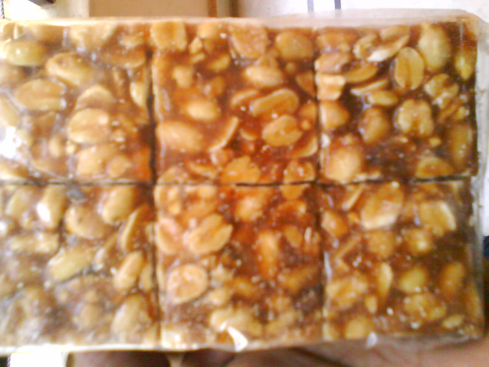 The sweet known as chikki in India and pé-de-moleque in Brazil is extremely popular in both countries. This is a picture of a package of Indian chikki.